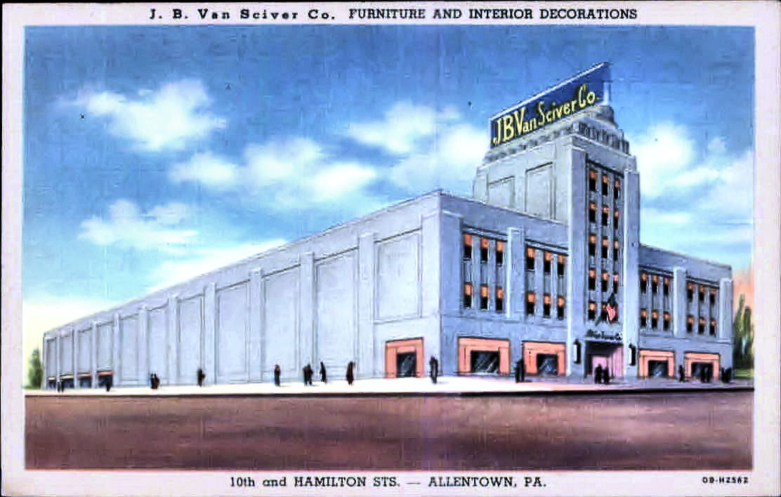 Postcard of J B Van Sciver furniture store.